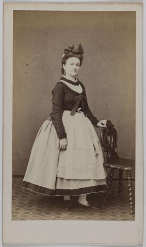 Zulma (Magdeleine) Bouffar (1841-1909), French actress and singer, as Lischen in Jacques Offenbach's operetta Lischen et Fritzchen, anonymous photograph